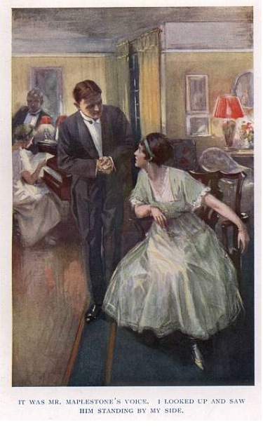 Artwork from "The Lady of the Basement Flat" (1917) by Mrs George de Horne Vaizey